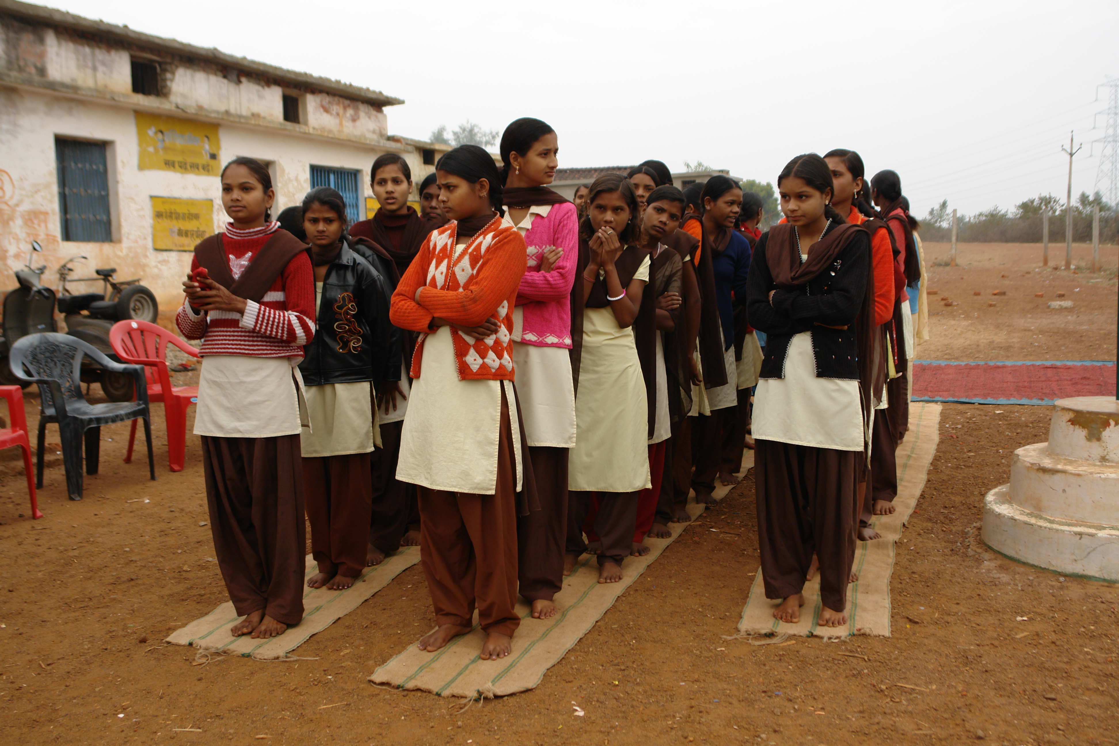 School, Katni, MP, India.